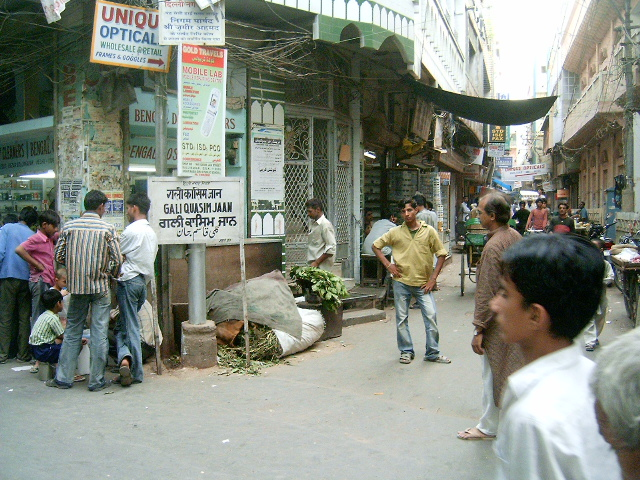 Gali Qasim Jan in Ballimaran, Old Delhi Ghalib and Hakim Ajmal Khan's house is on this street.